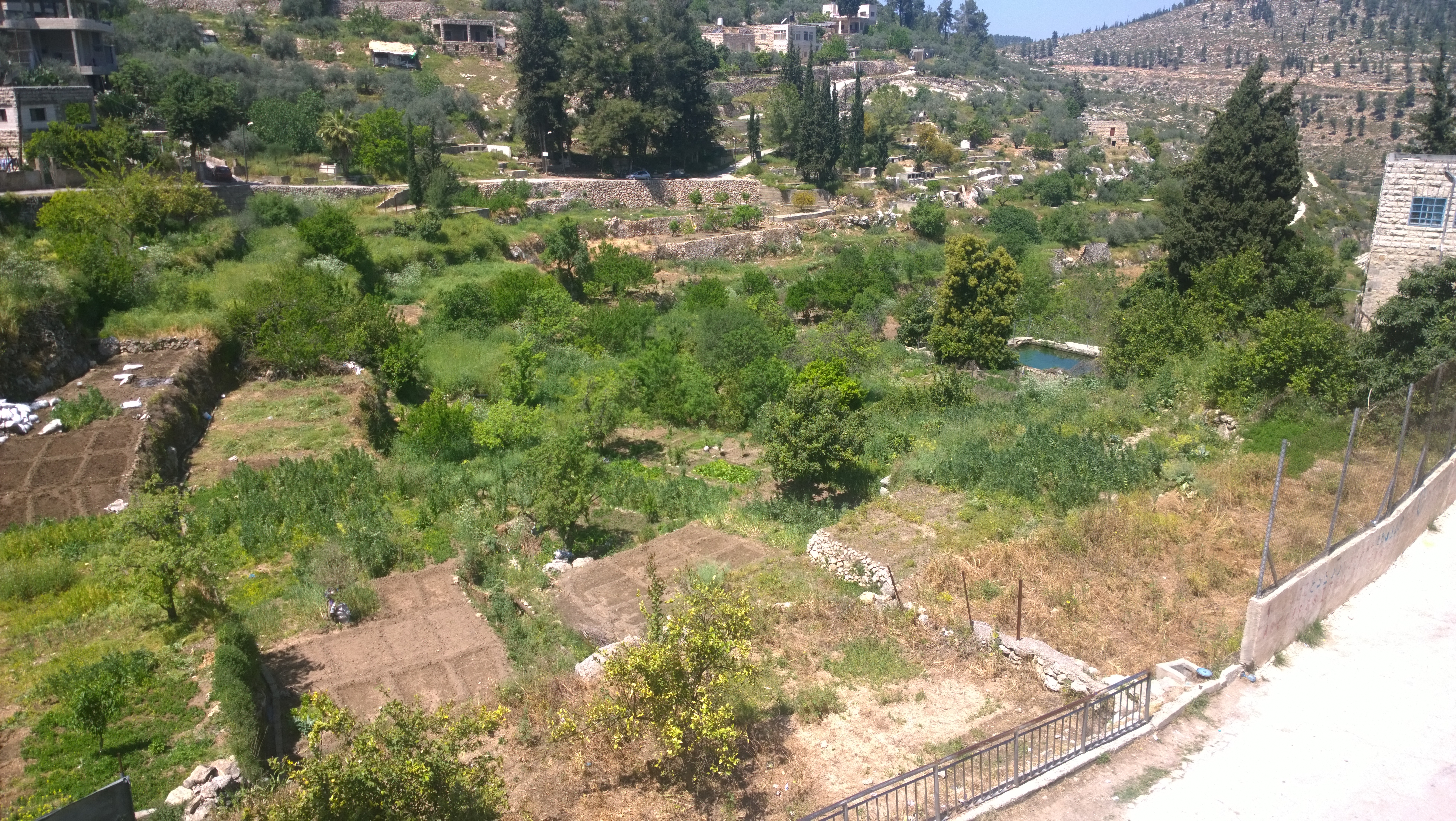 Palestine- West Bank- Batter- agricultural lands